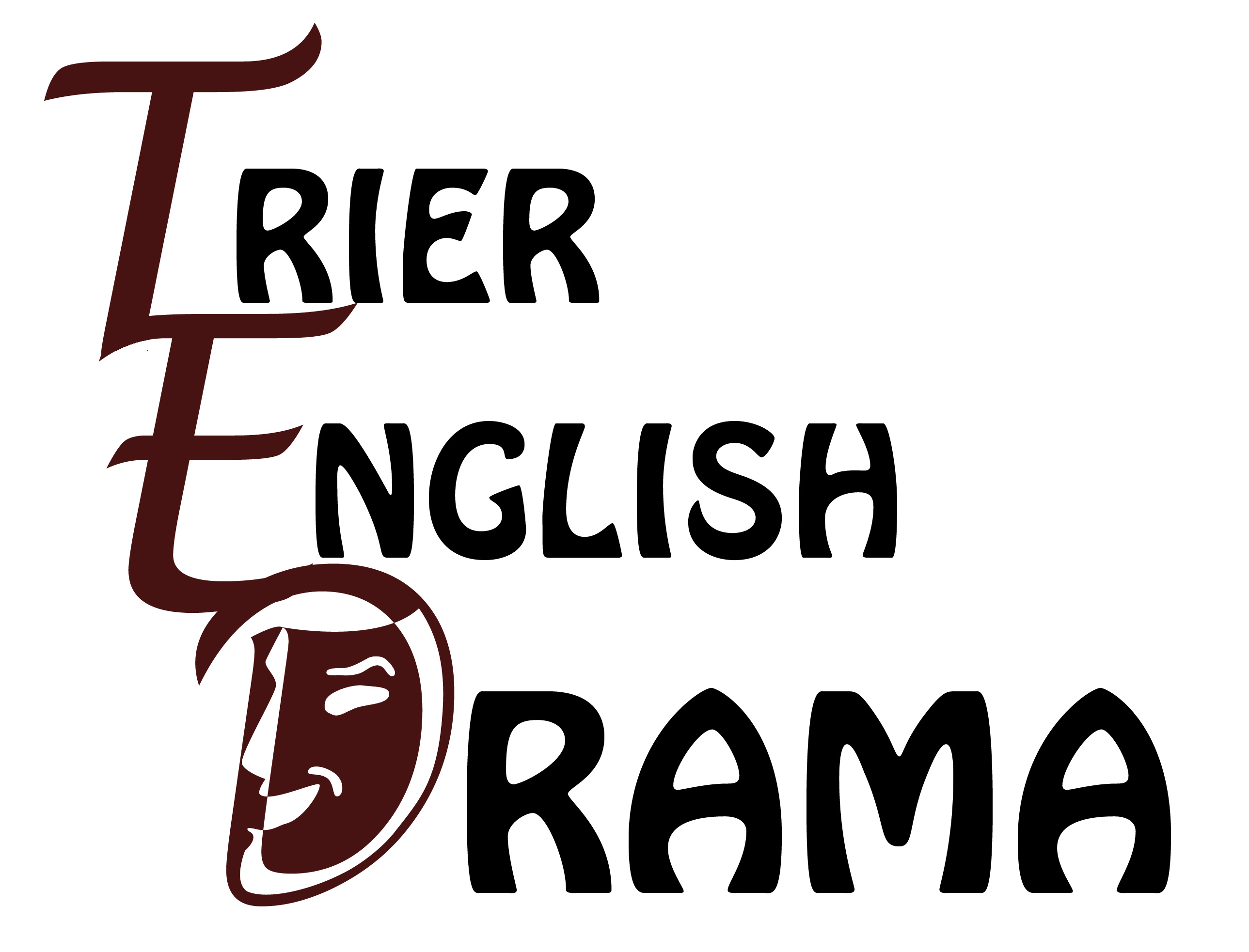 Official logo of the English theatre group "Trier English Drama (TED") in Trier, Germany.